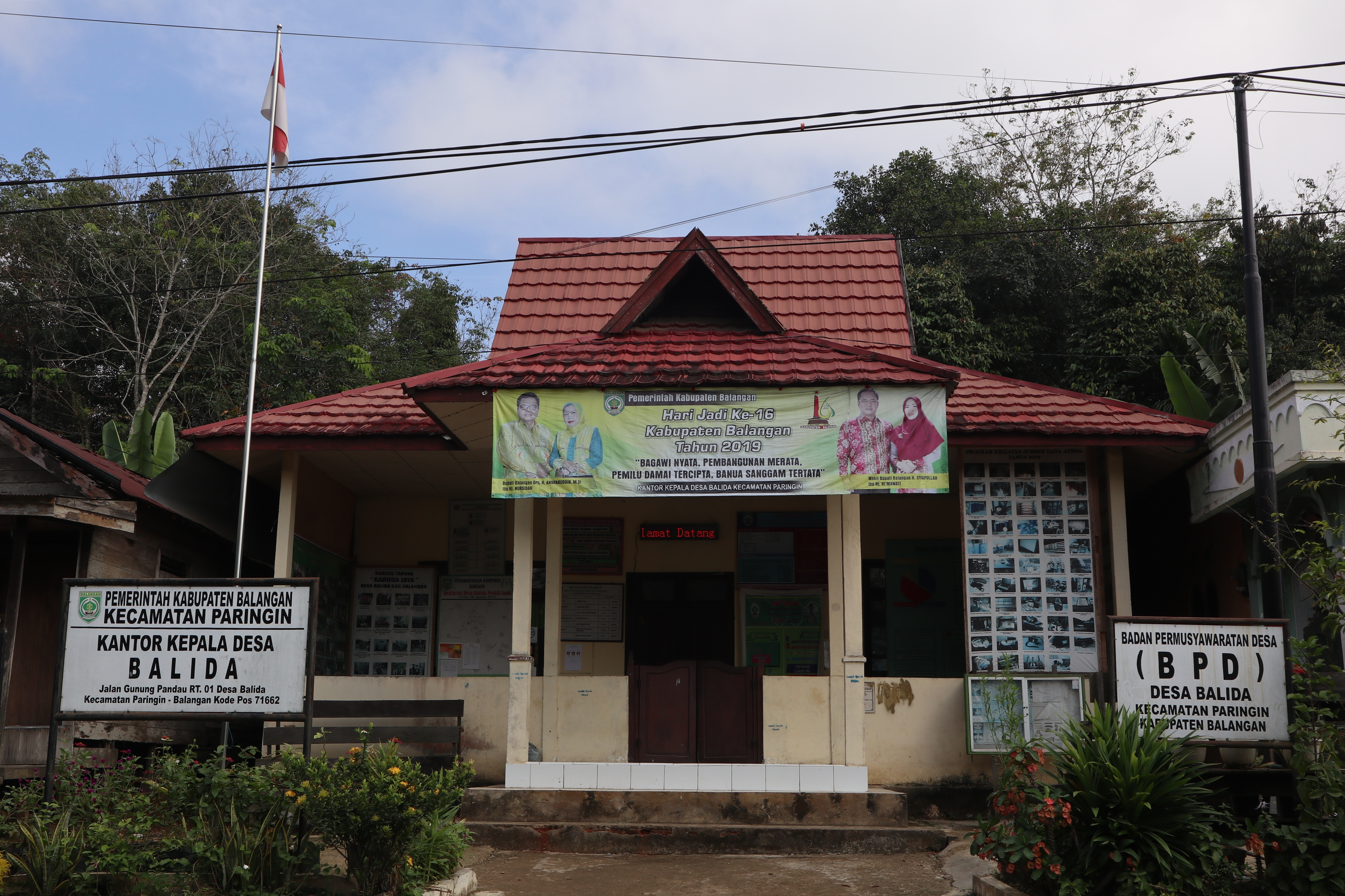 Balida village office in Paringin subdistrict, Balangan Regency, South Kalimantan, Indonesia.